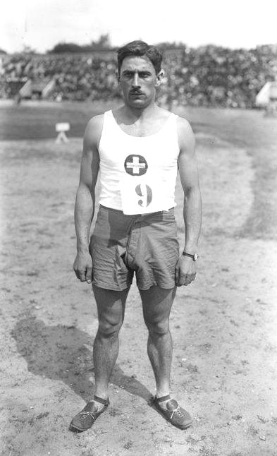 The Swiss sprinter, Josef Imbach in 1921Occitan : Lo corredor sois, Josef Imbach en 1921